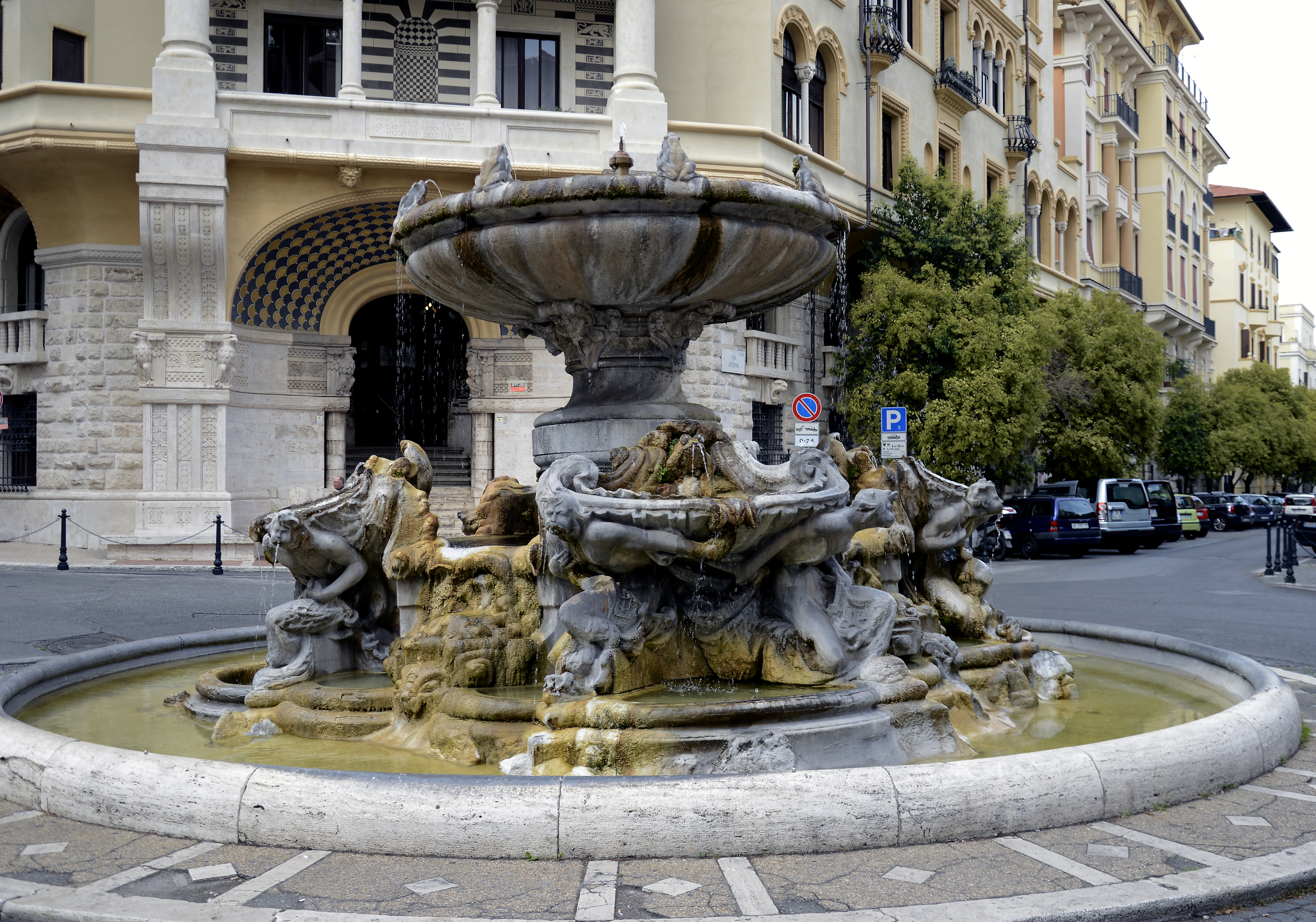 Fontaine of the frogs